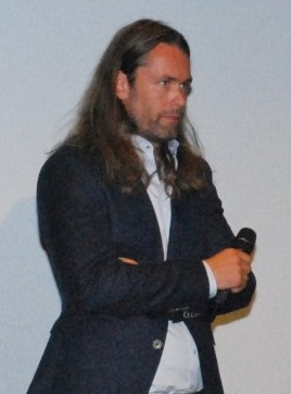 Tuesday, September 13, 2016 at the Scotiabank Theatre in Toronto, Canada